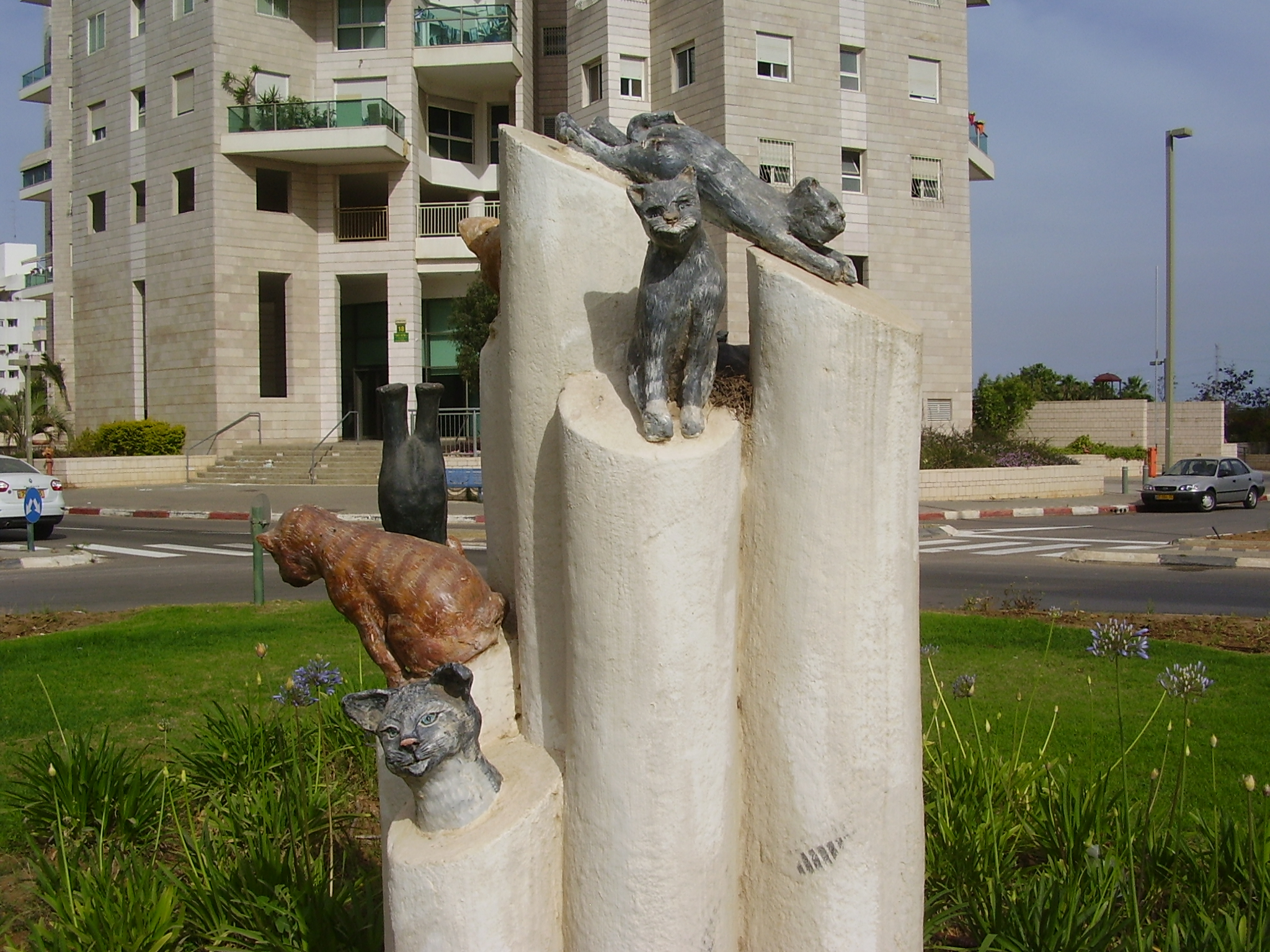 Cats square in Petah Tikva, Israel